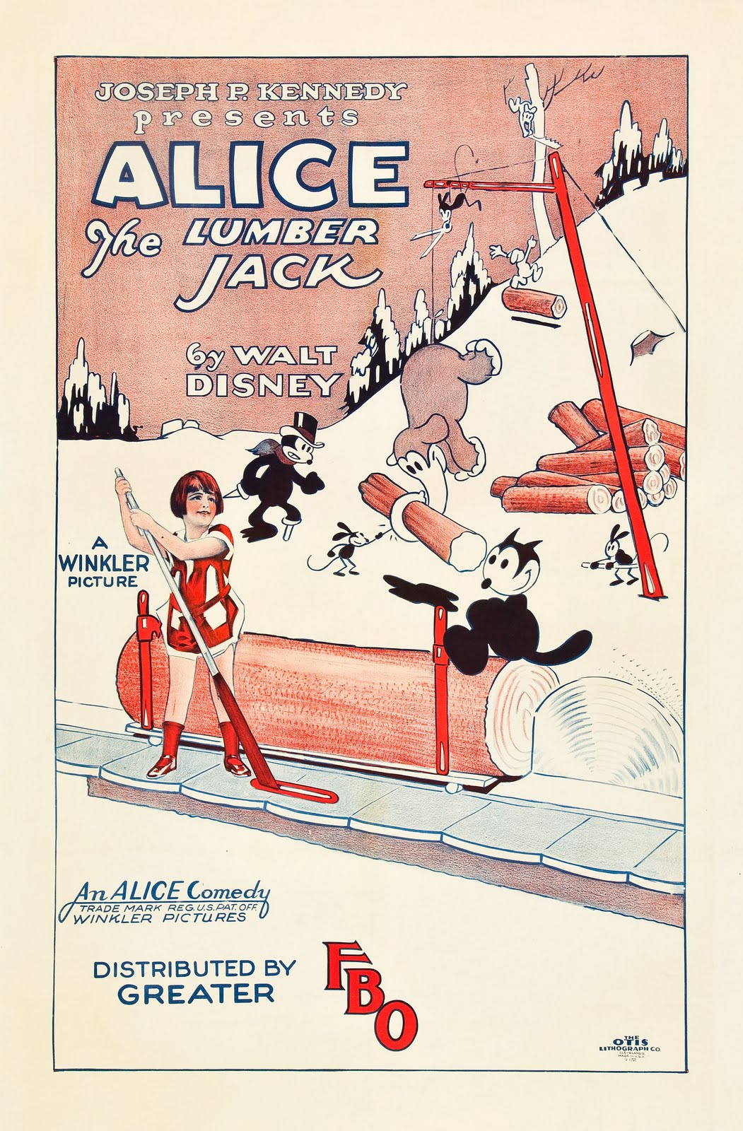 Poster for the 1926 film short Alice the Lumber Jack. There are no copyright marks. At Bottom right is The Otis Lithograph Co. Cleveland Made in USA and Q or O 172.